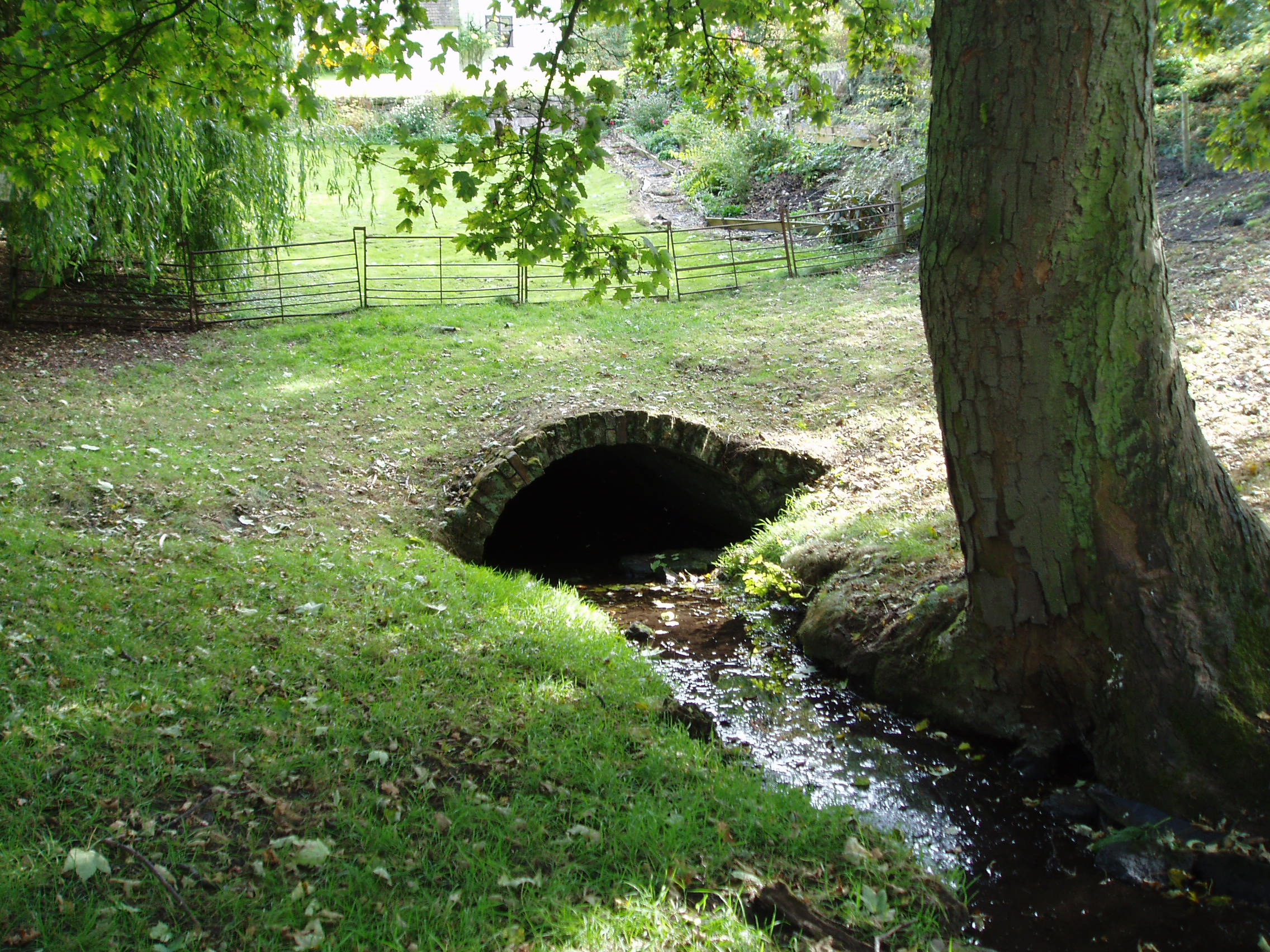 The top of the tunnel which linked to vertical shafts between the Donnington Wood Canal main line and the Lilleshall Branch, before the inclined plane was built in 1797.